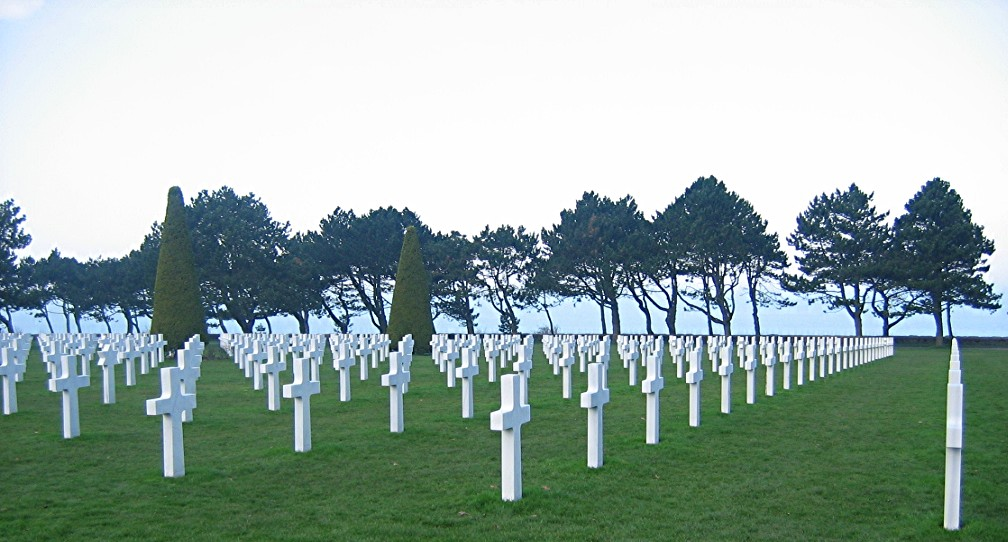 US cemetery, Colleville-sur-Mer, Calvados, Normandy